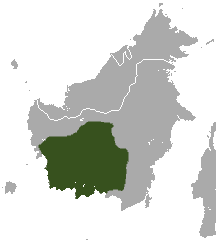 Bornean White-bearded Gibbon (Hylobates agilis albibarbis) range